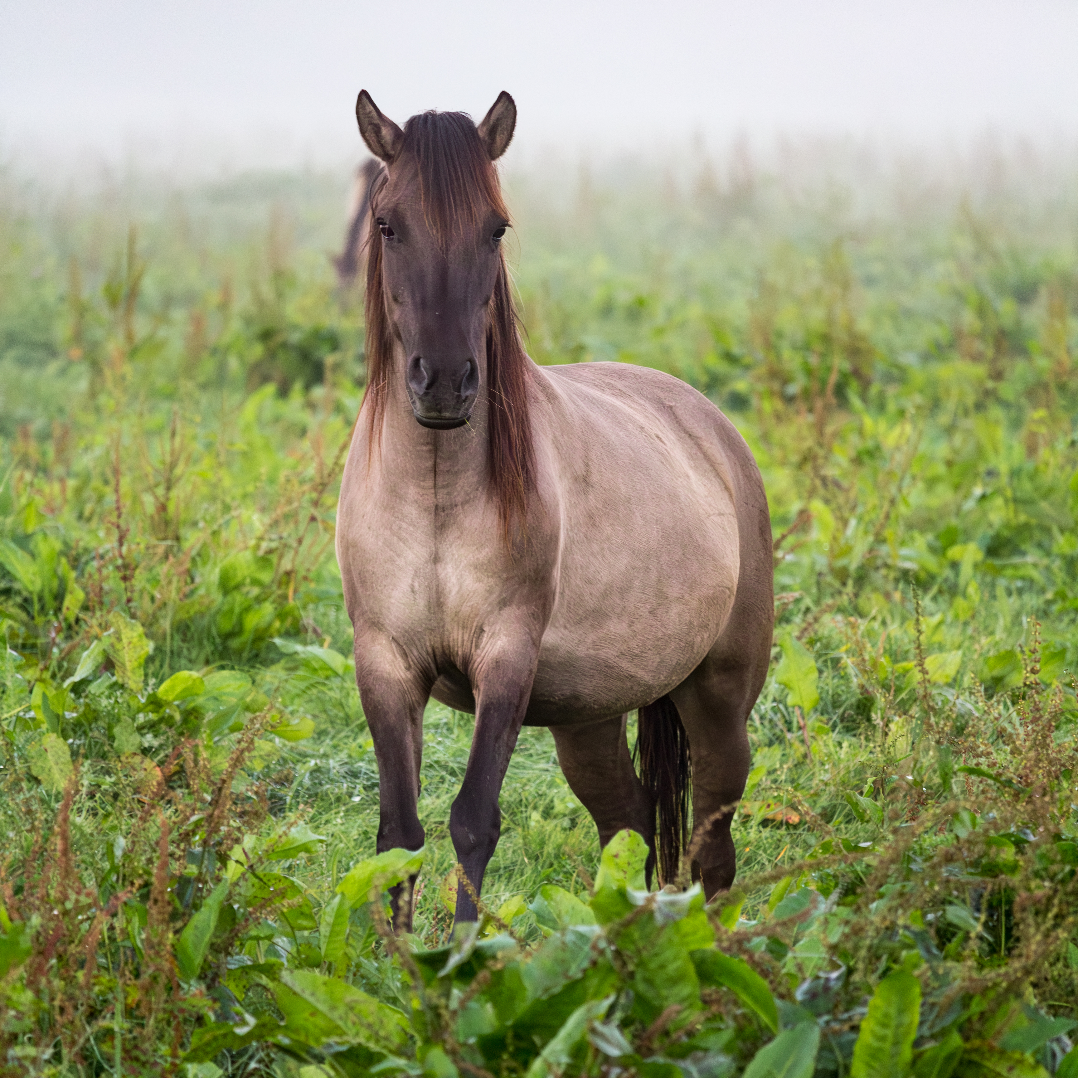 Dülmen ponies in the Wildbahn in the Merfelder Bruch in the morning fog at sunrise, Merfeld, Dülmen, North Rhine-Westphalia, Germany